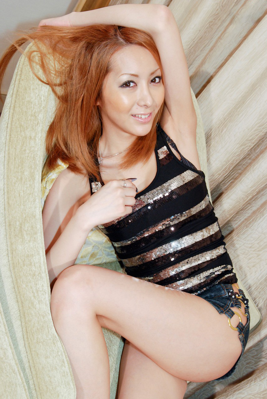 Japanese transsexual porn star Hime Tsukino